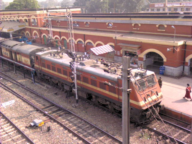 A rajdhani express leaving KGP station for Bhubneswar